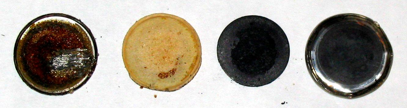 Description: Lithium battery CR2016, disassembled Author, date of creation: selfmade by Shaddack, 0 November 2005 Source: self-made Copyright: Public Domain (PD) Comments: Disassembled lithium battery. Leftmost: Anode cup, inner side, spent lithium partially scratched off Left: Separator, a layer of porous material soaked with electrolyte - lithium salt in organic solvent Right: Cathode, a tablet of manganese dioxide Rightmost: Cathode can, with current collector (carbon layer) on its bottom and a gasket around its inner edge. Damaged by clumsy opening attempt.